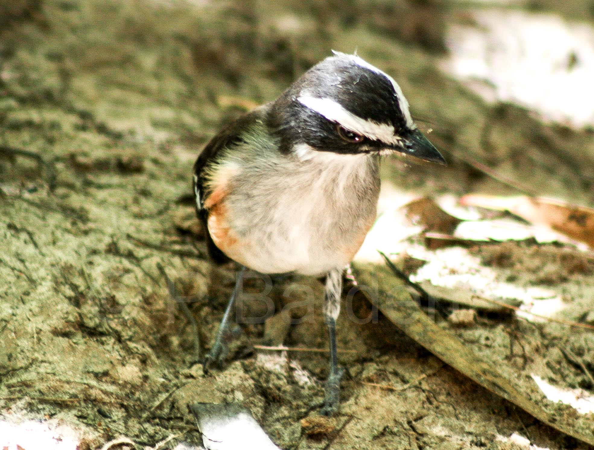 Buff-sided robin foraging on the ground, near Borroloola NT